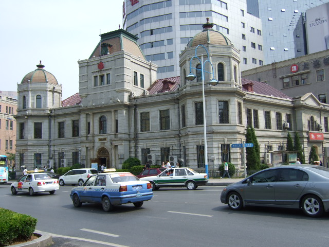 Former Dalian branch of the Bank of China